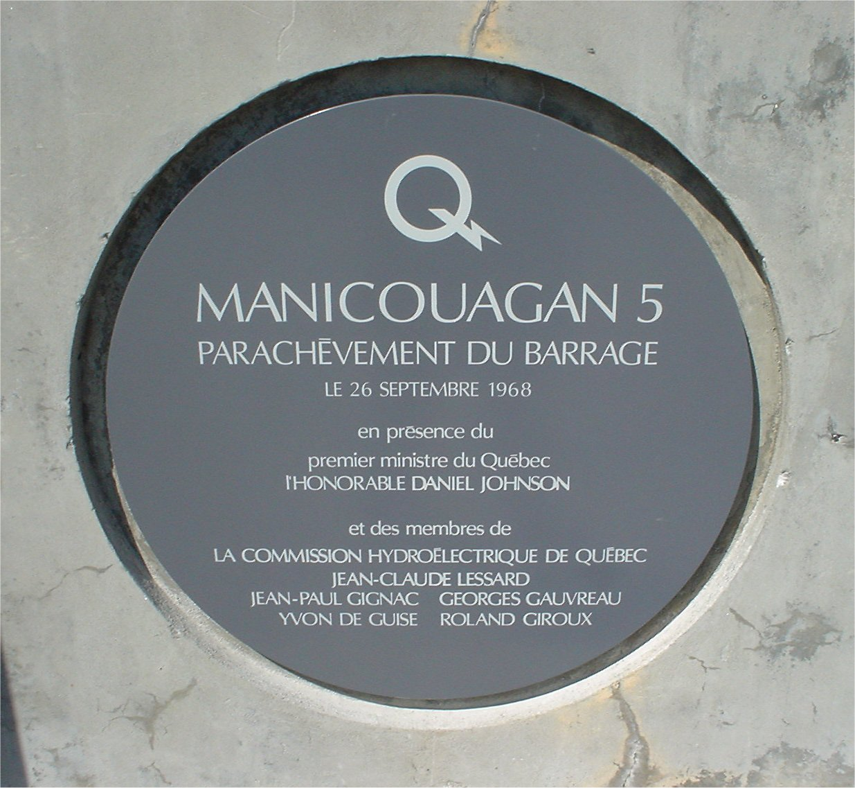 A dedication plaque at the Manic-5 powerhouse of the Daniel-Johnson Dam.